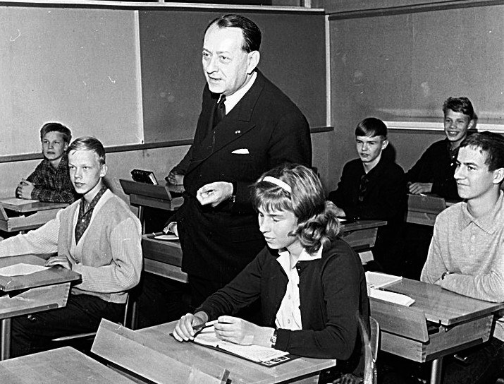 André Malraux visited the French school in Helsinki in September 1963.